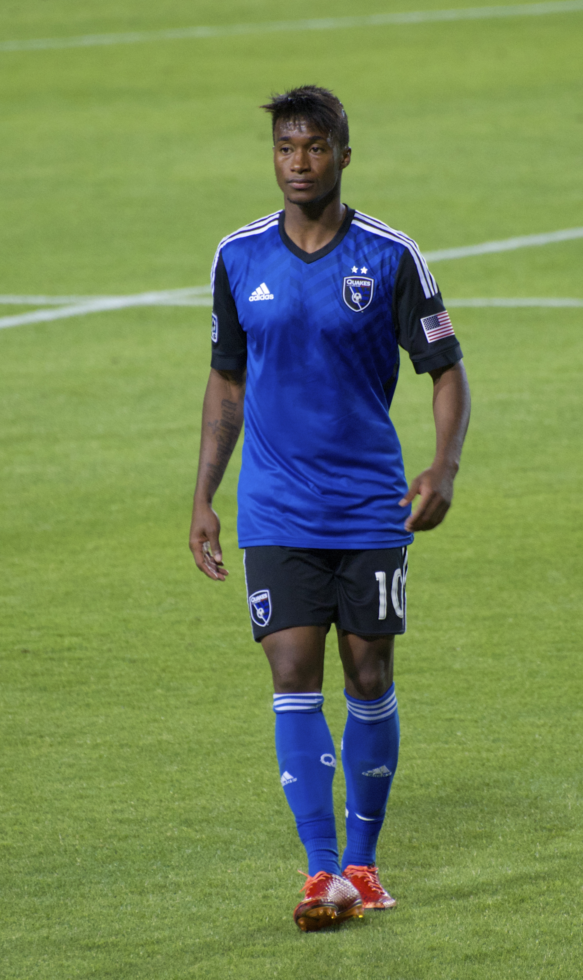 Yannick Djalo, Houston Dynamo vs San Jose Earthquakes, Buck Shaw Stadium, 25 May 2014